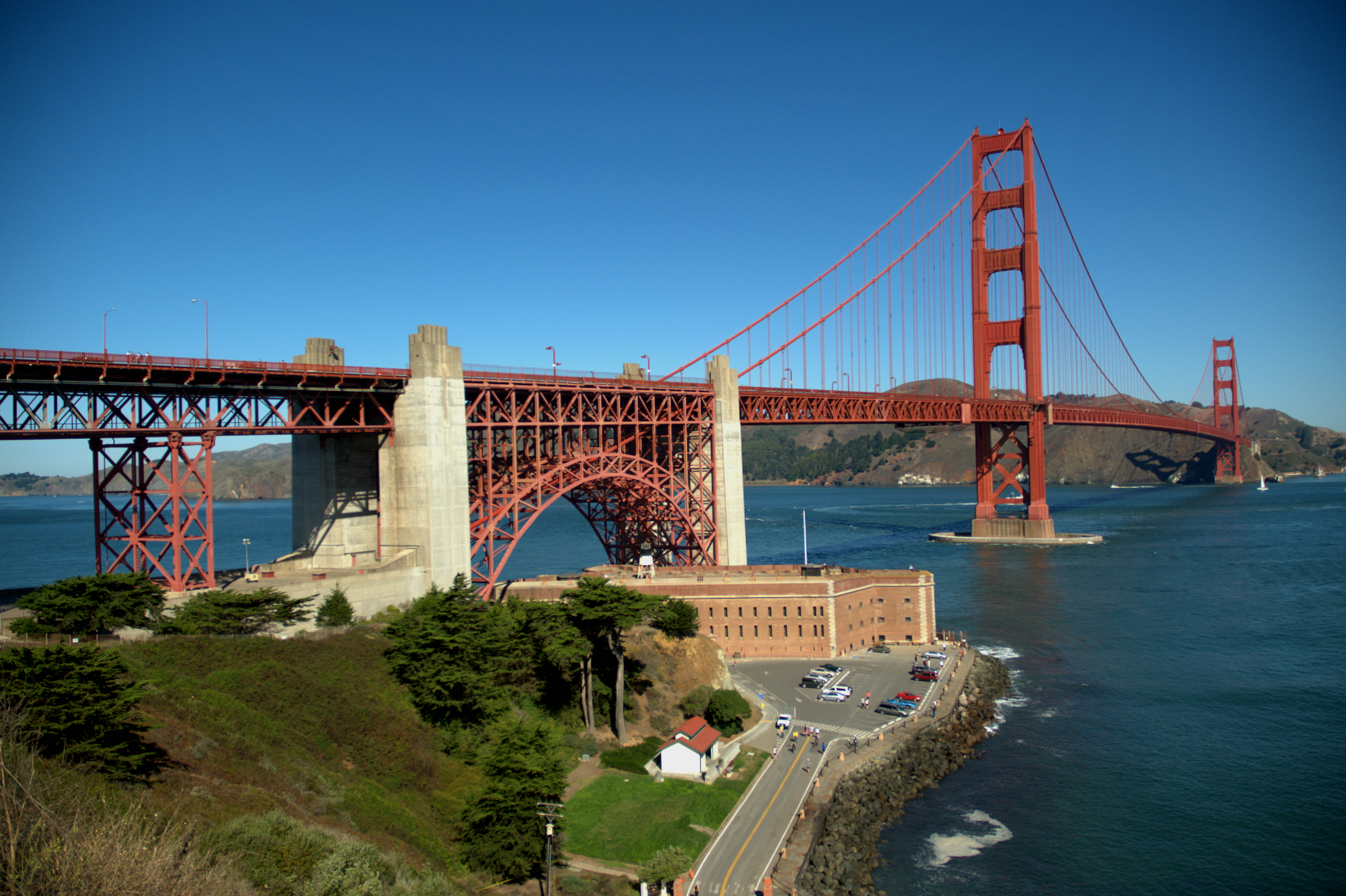 The Golden Gate Bridge and Fort Point seen from the Presidio, near the Battery East Trail, in San Francisco, California